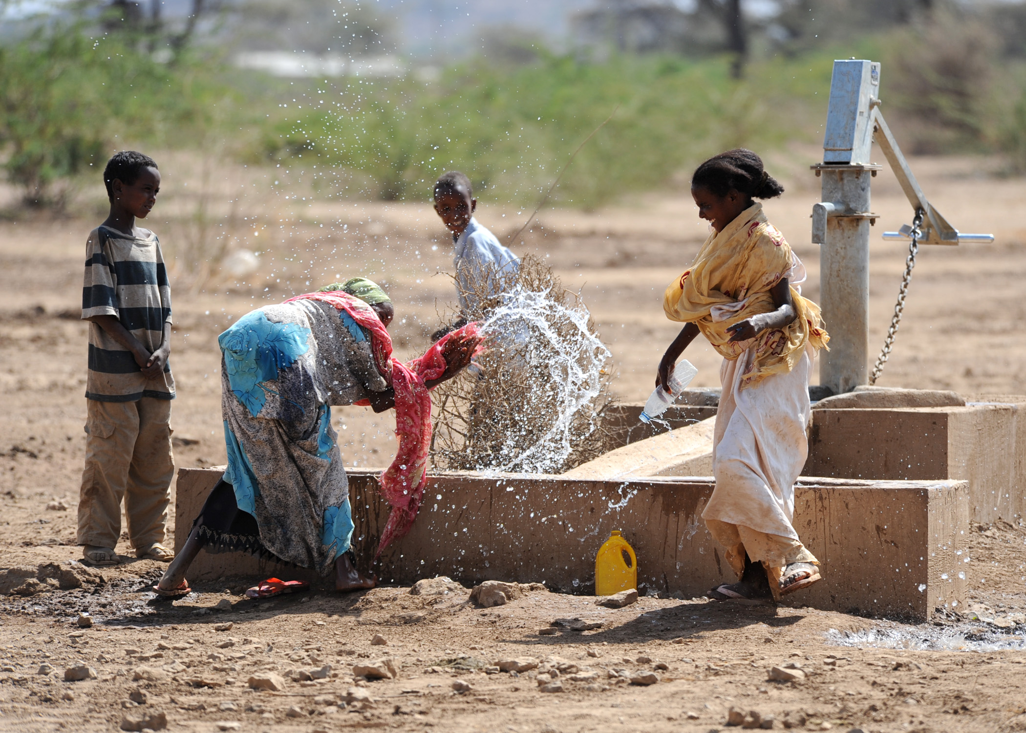 JEDANE, Ethiopia (March 11, 2011) Ethiopian children play in the water of a well built by Seabees assigned to Naval Mobile Construction Battalion (NMCB) 74 Detail Horn of Africa in Jedane, Ethiopia. The 302-foot-deep well provides clean water to more than 3,400 area residents and their livestock. (U.S. Navy photo by Mass Communication Specialist 2nd Class Michael Lindsey/Released)